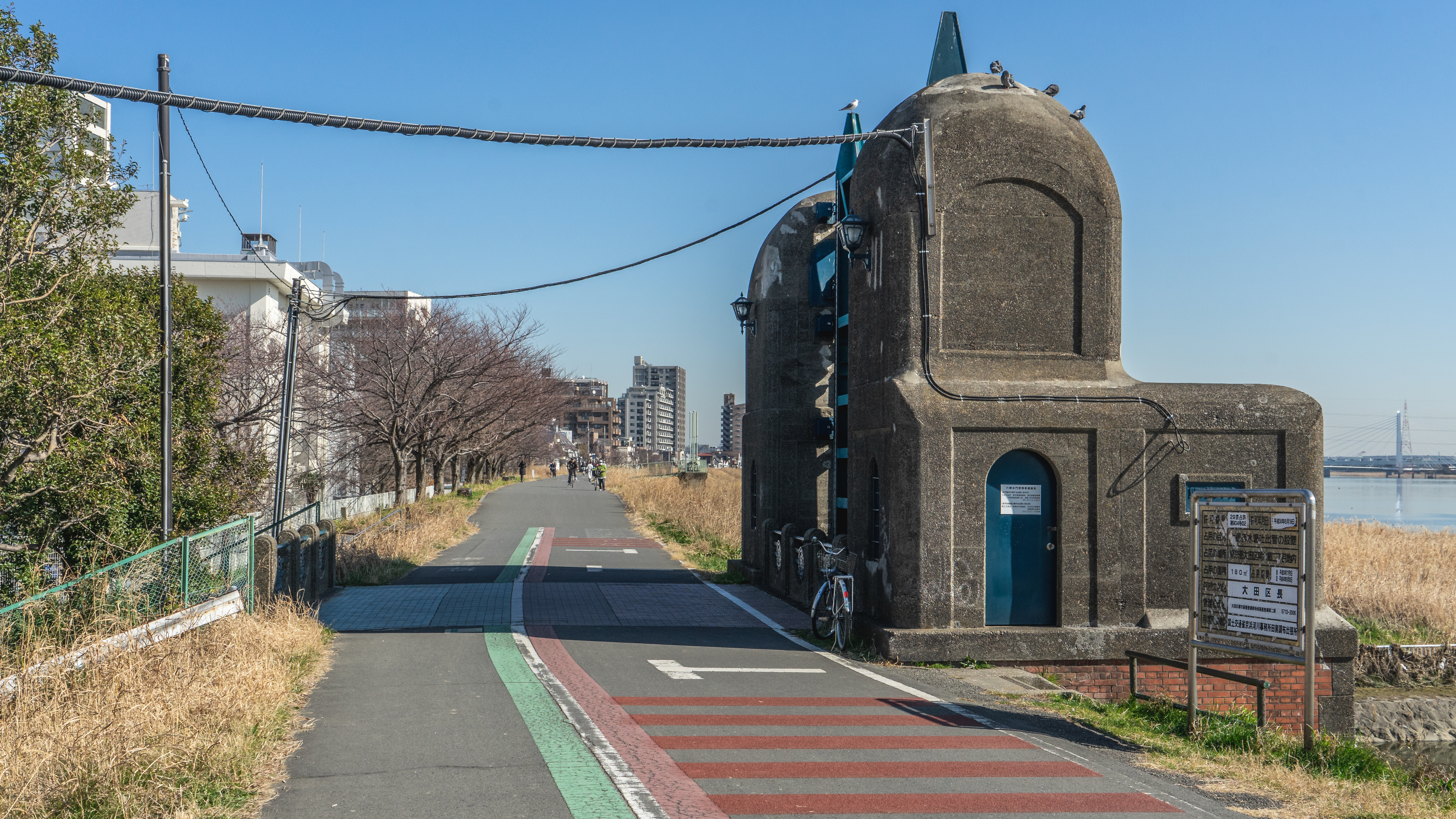 The Rokugo Sluice in Ota Ward, Tokyo, Japan